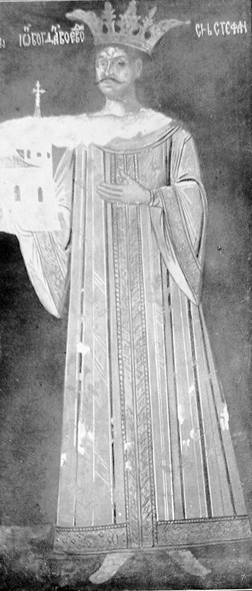 Bogdan cel Orb in St Nicholas church, Iaşi